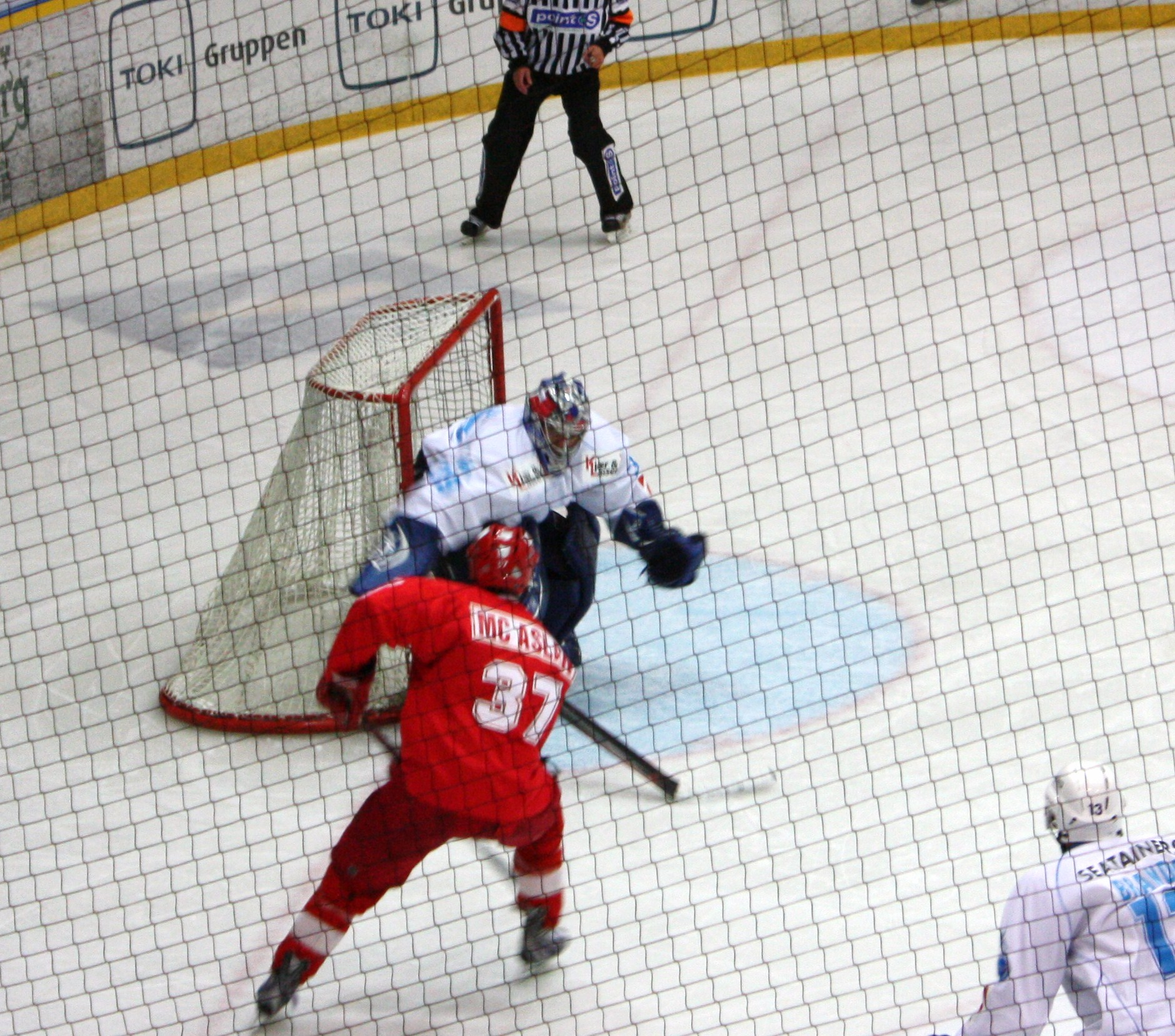 Sean McAslan just before scoring a goal in a Danish Elite League game between Rødovre Mighty Bulls and Nordsjælland Cobras on September 14, 2008.